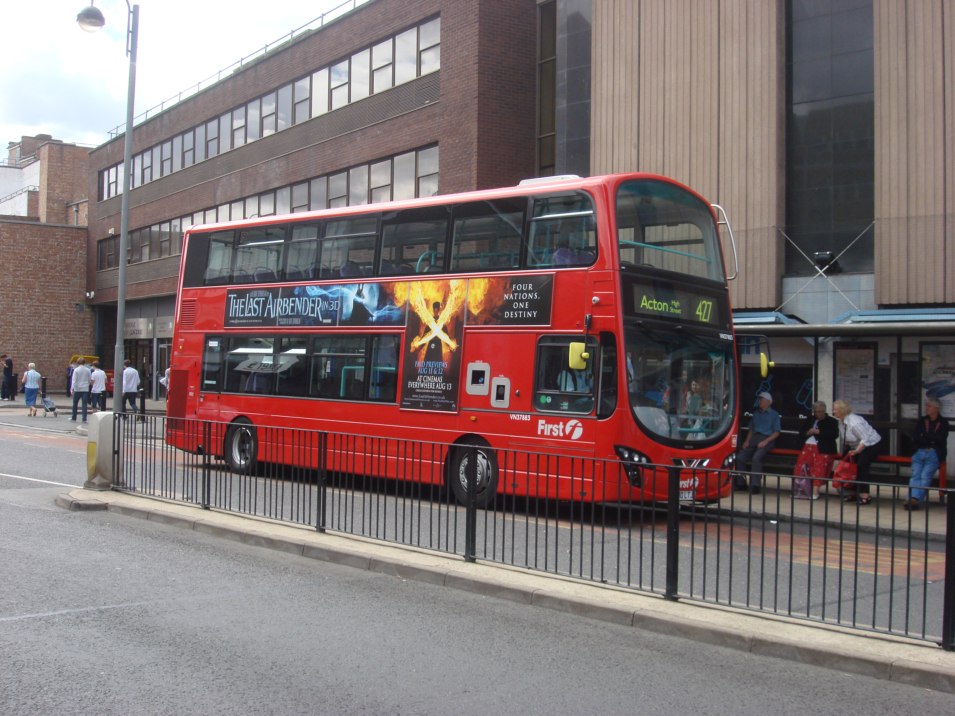 A London Bus .